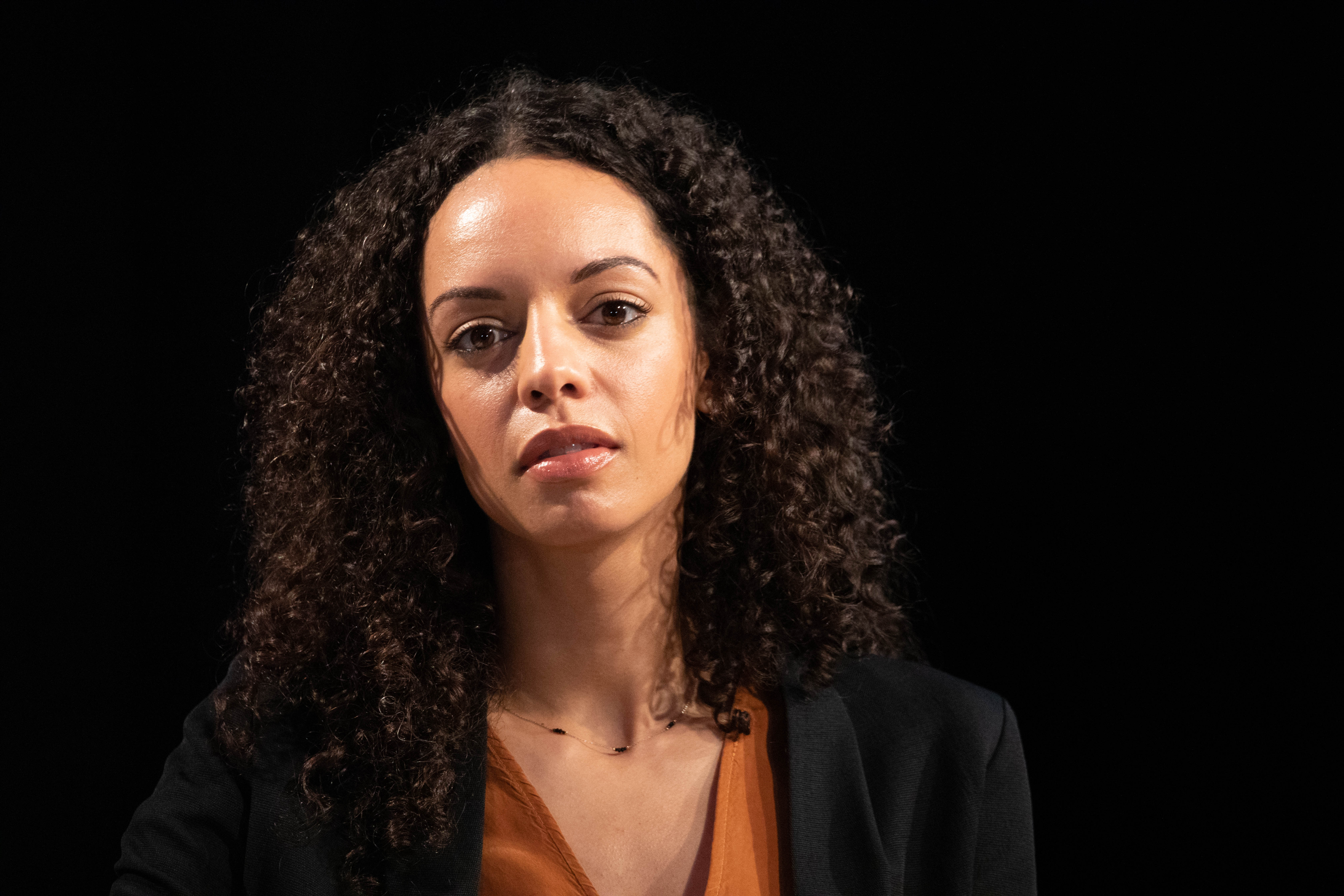 National Immigration Reporter, The New York Times Photo: Ståle Grut / NRKbeta